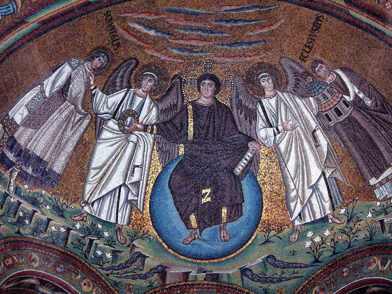 Cupola of the choir, decorated with byzantine mosaics (finished till 547): Christ offers the martyr crown to San Vitale, while an angel offers a model of the church to bishop Ecclesius; Basilica of San Vitale in Ravenn, Italy.